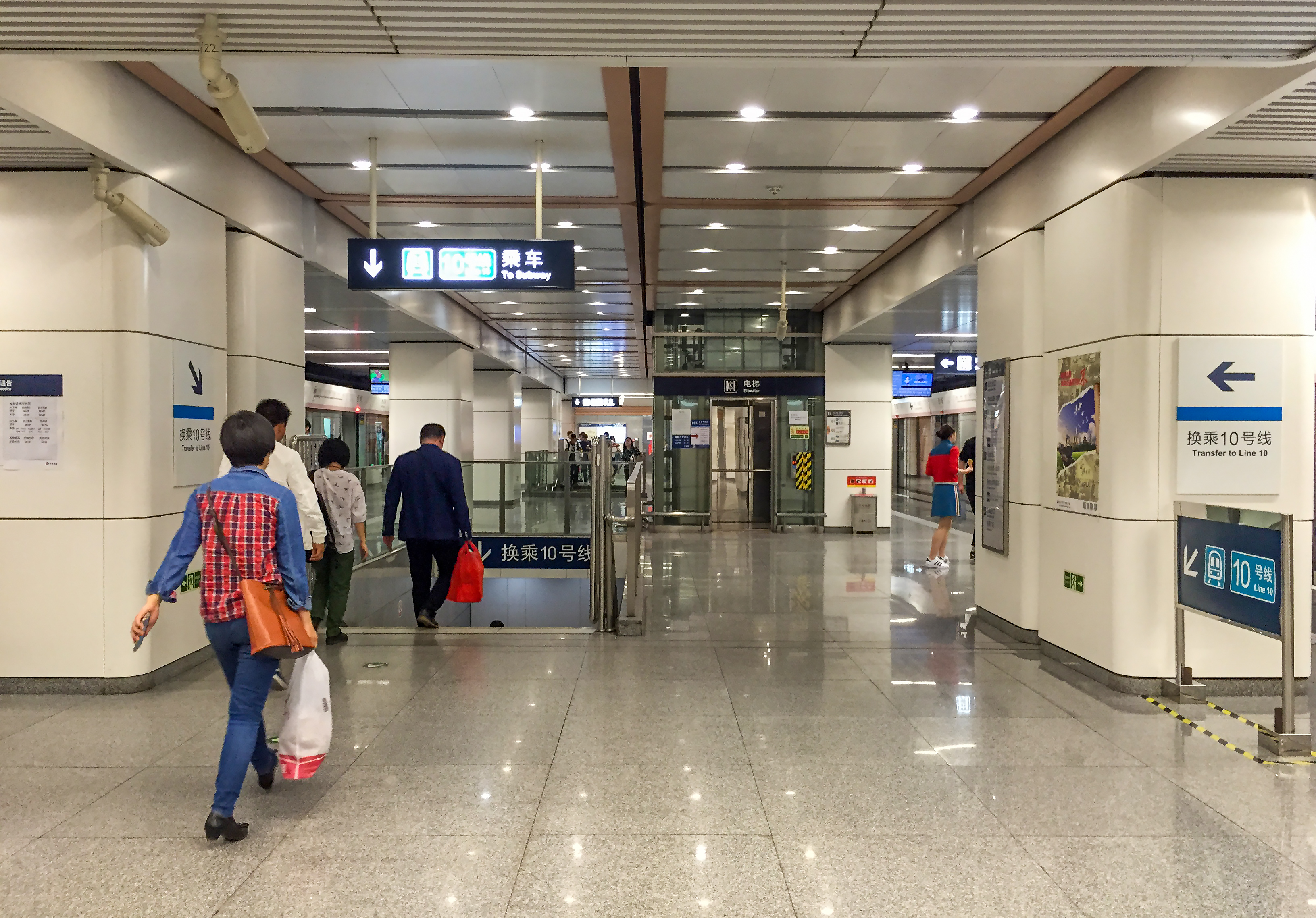 Yes, Xiju, not Qilizhuang - trying to head for Beijing South Railway Station before 14M opens.